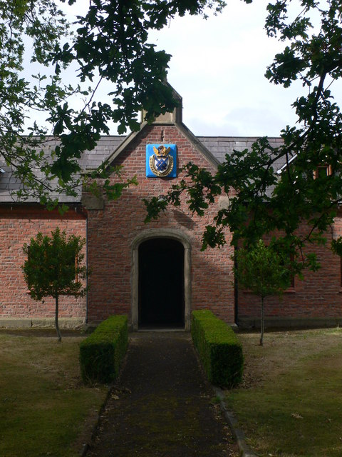 House with coat of arms, Tilstone Fearnall